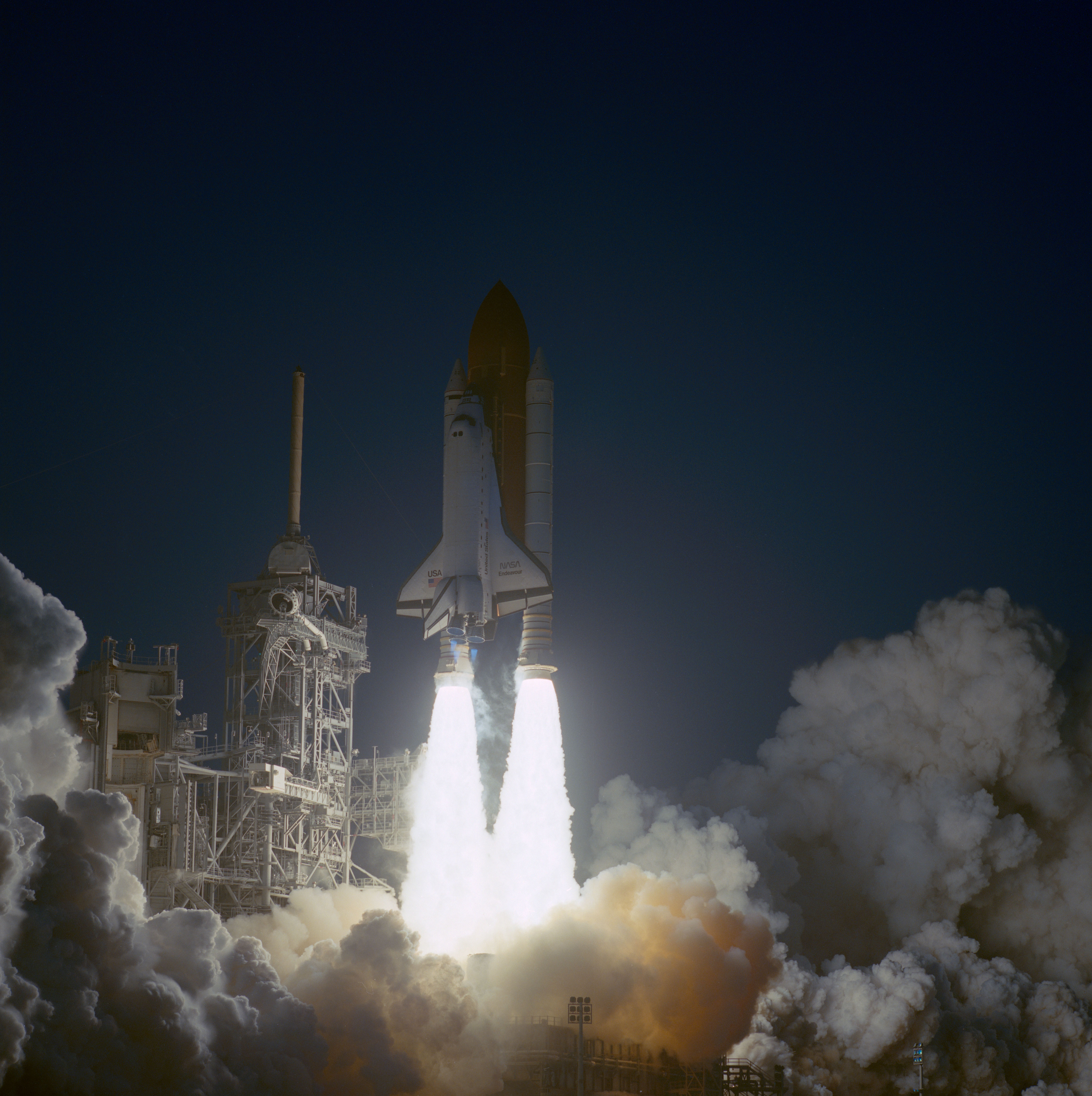 The liftoff of the Space Shuttle Endeavour is backdropped against a dawn sky at the Kennedy Space Center (KSC). Liftoff occurred at 7:05 a.m., April 9, 1994.